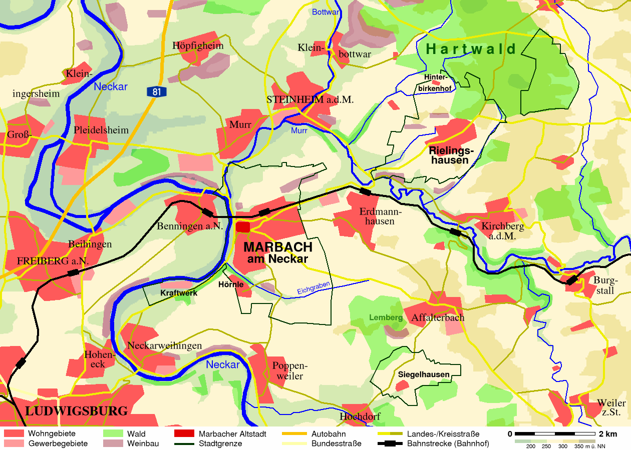 Map of Marbach am Neckar (Germany)